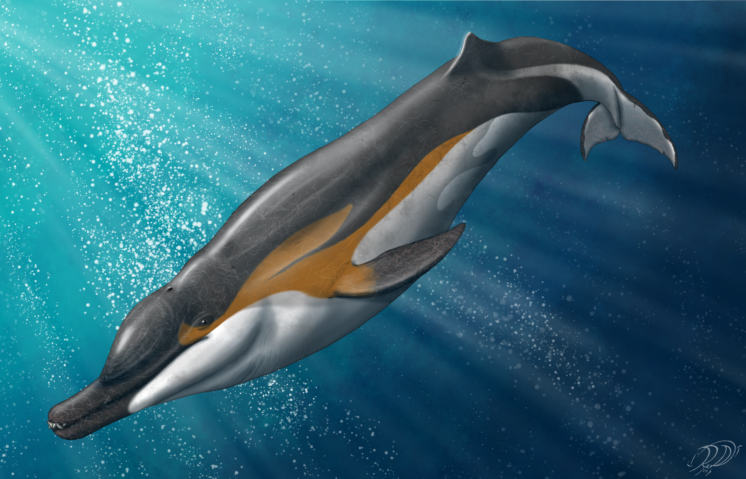 Life reconstruction of the extinct dolphin species Ankylorhiza tiedimani, based on the skeletal reconstruction by Boessenecker et al., (2020)[1], with colour patterns based on extant dolphins[2].